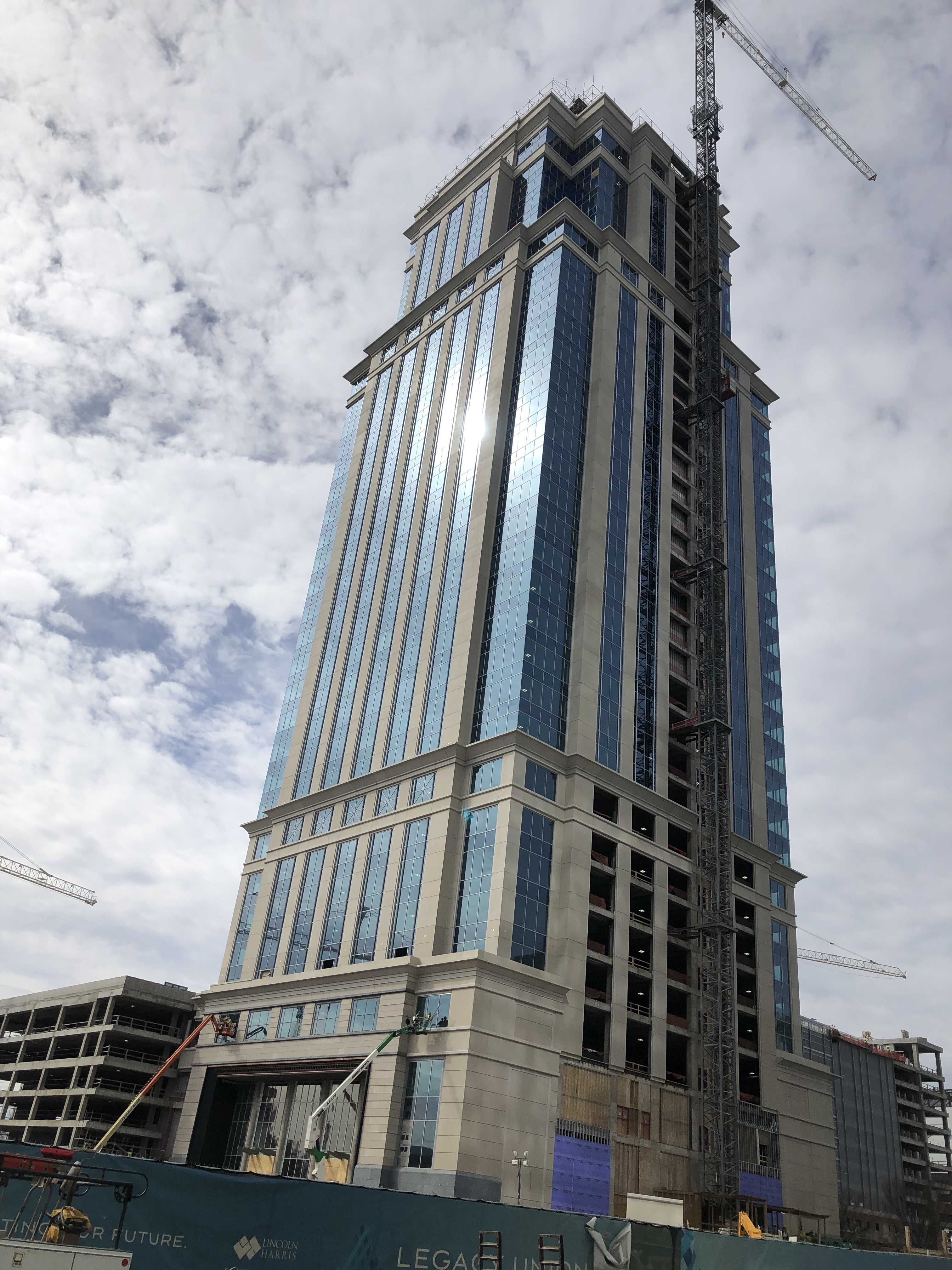 Front view of Legacy Union, Charlotte, North Carolina